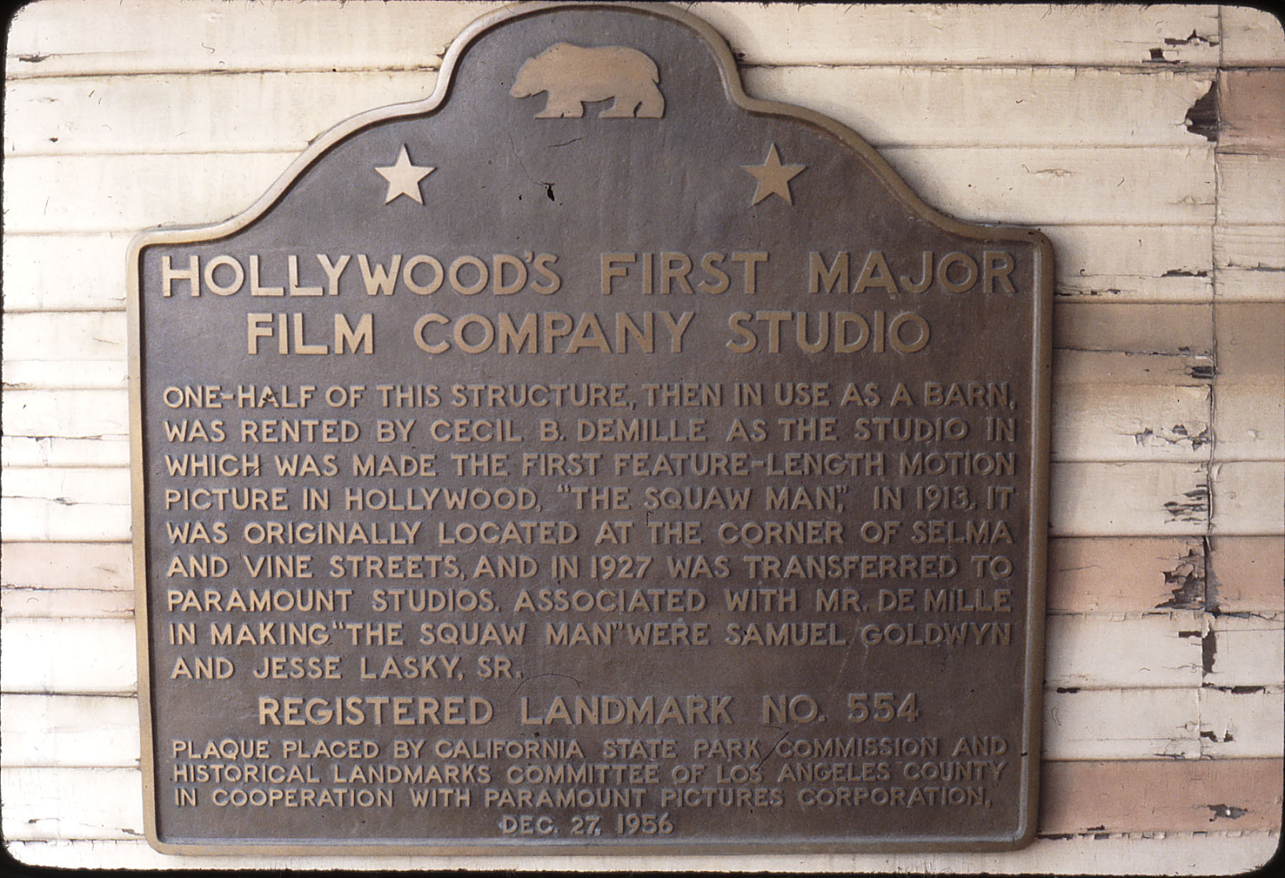 Historical Landmark 554, California